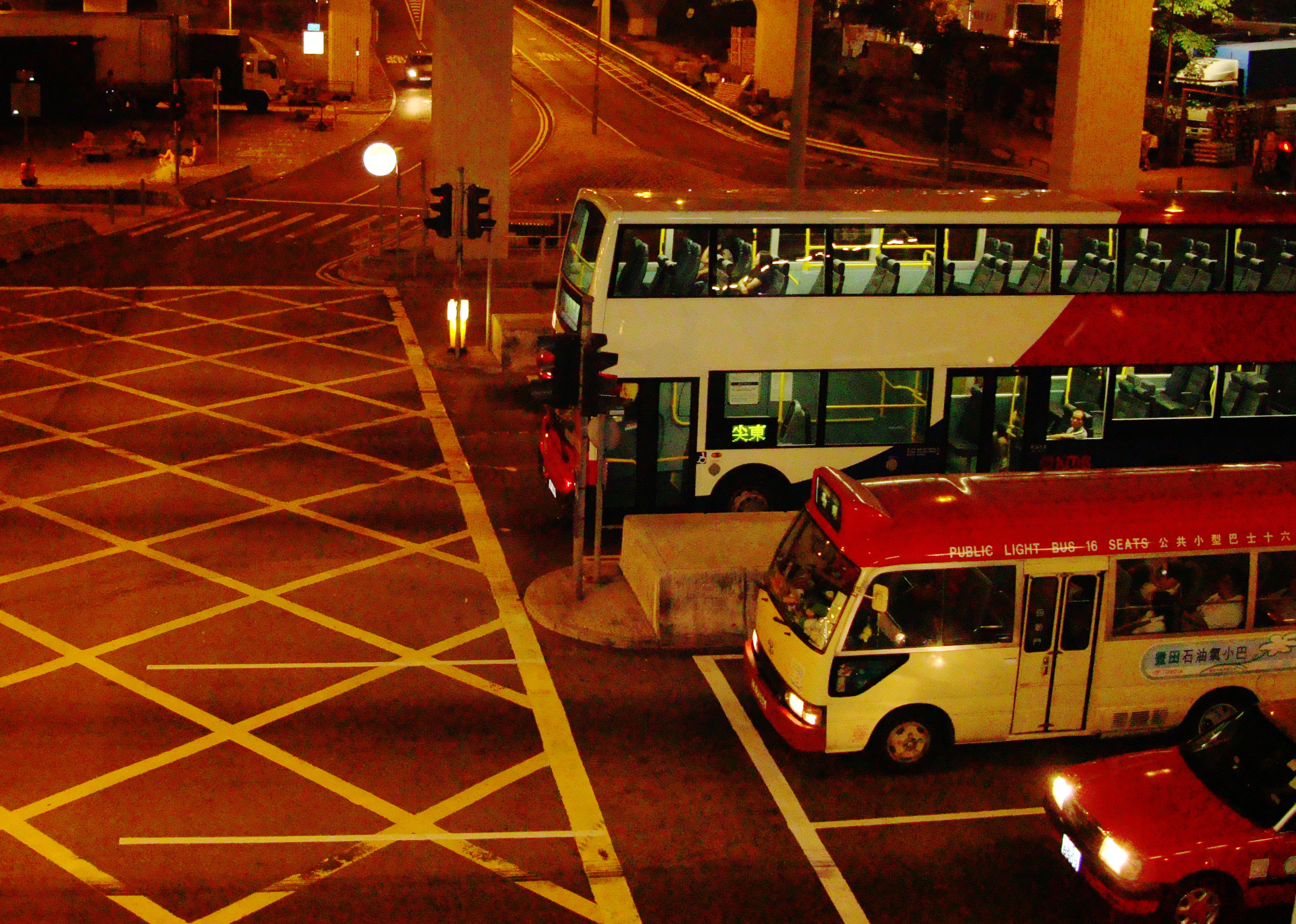 Hong Kong transportation (Bus, Minibus and Taxi)